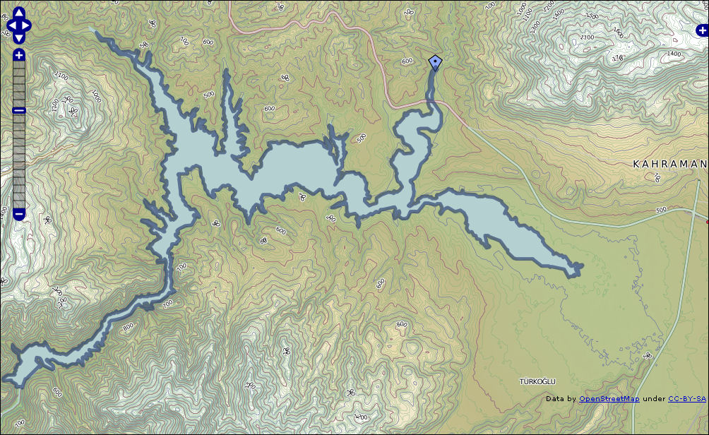 Sır reservoir near Kahramanmaraş